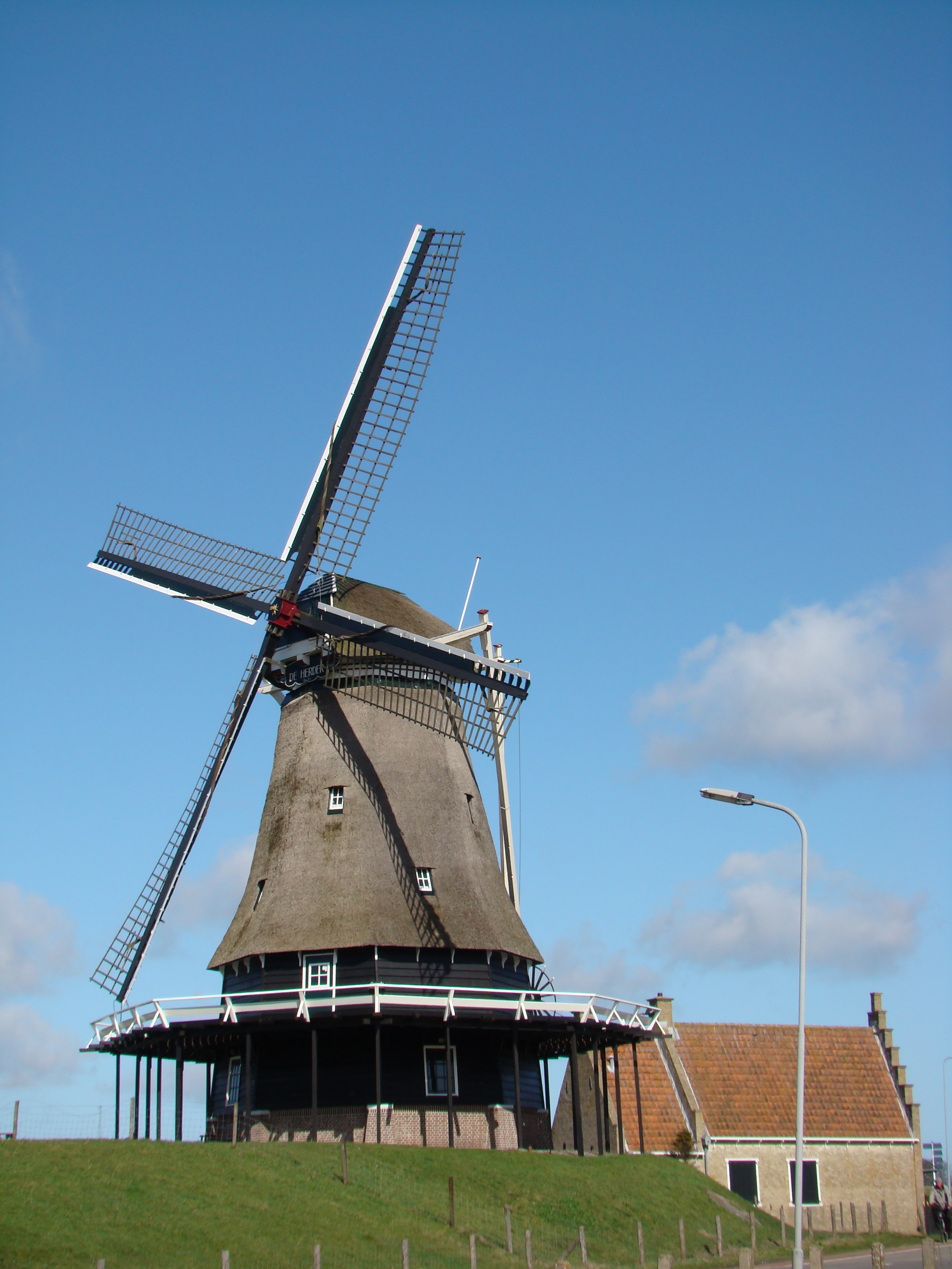 Windmill "De Herder" at Medemblik, Netherlands